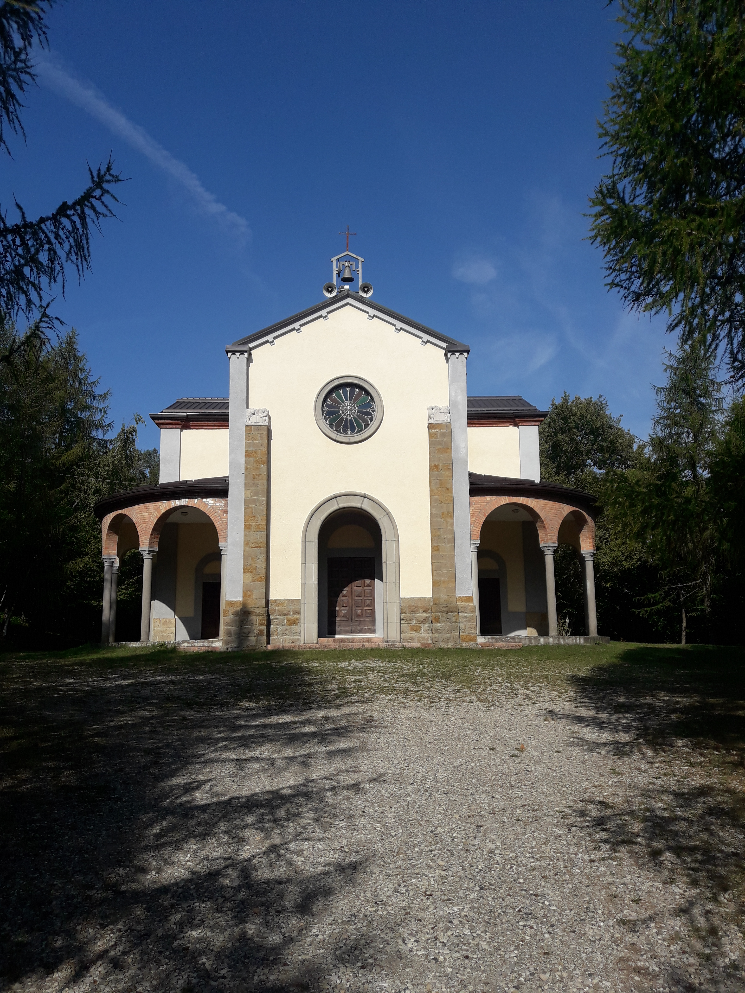 Oratory dedicated to "Madonna del Monte", located inside the provincial park of mount Moria, municipality of Morfasso, Piacenza, Italy